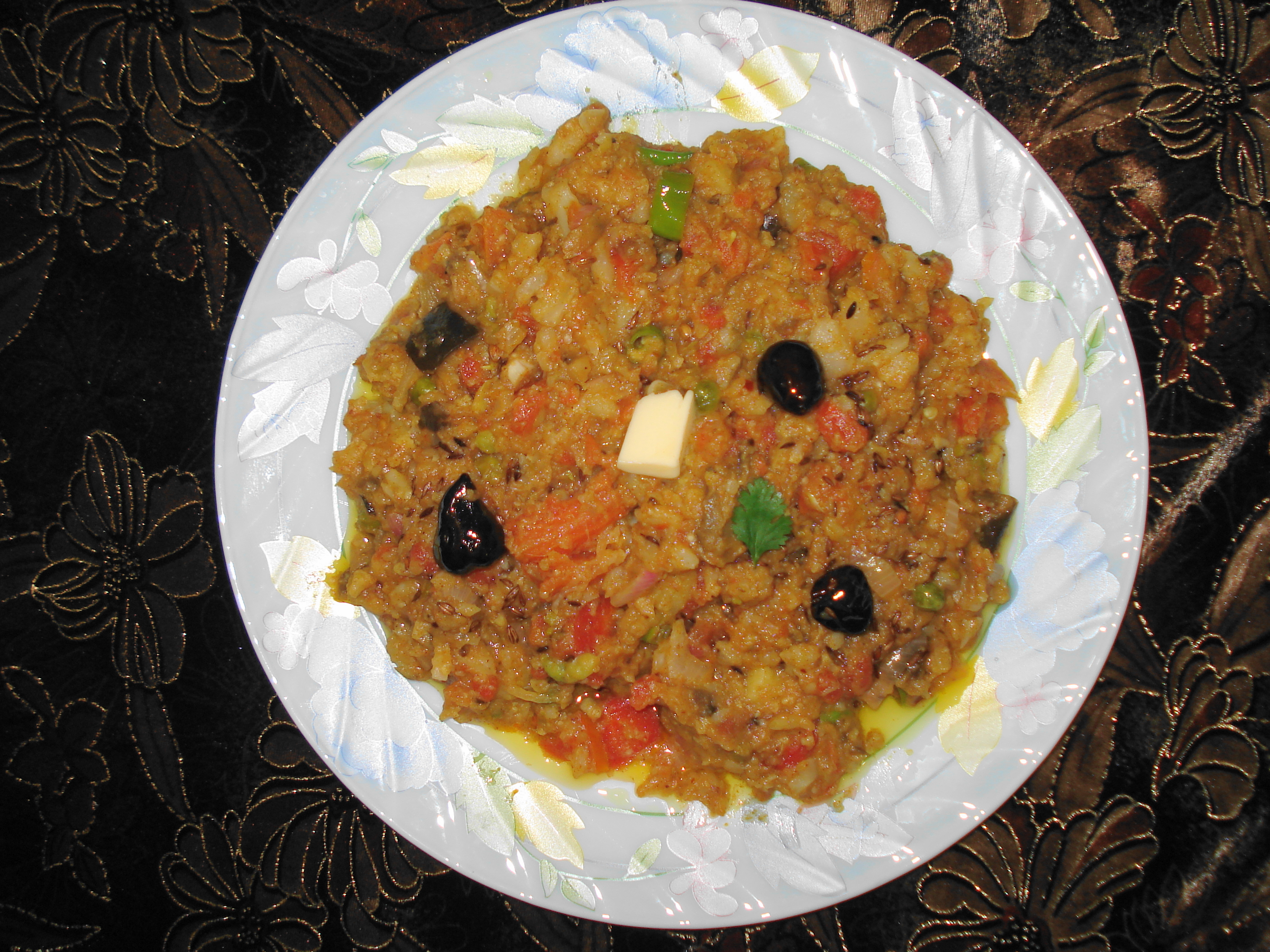 Pao Bhaji, Paw Bhaji